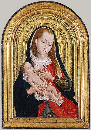 Virgin and Child (Virgo lactans), late 15th century. Oil on wood